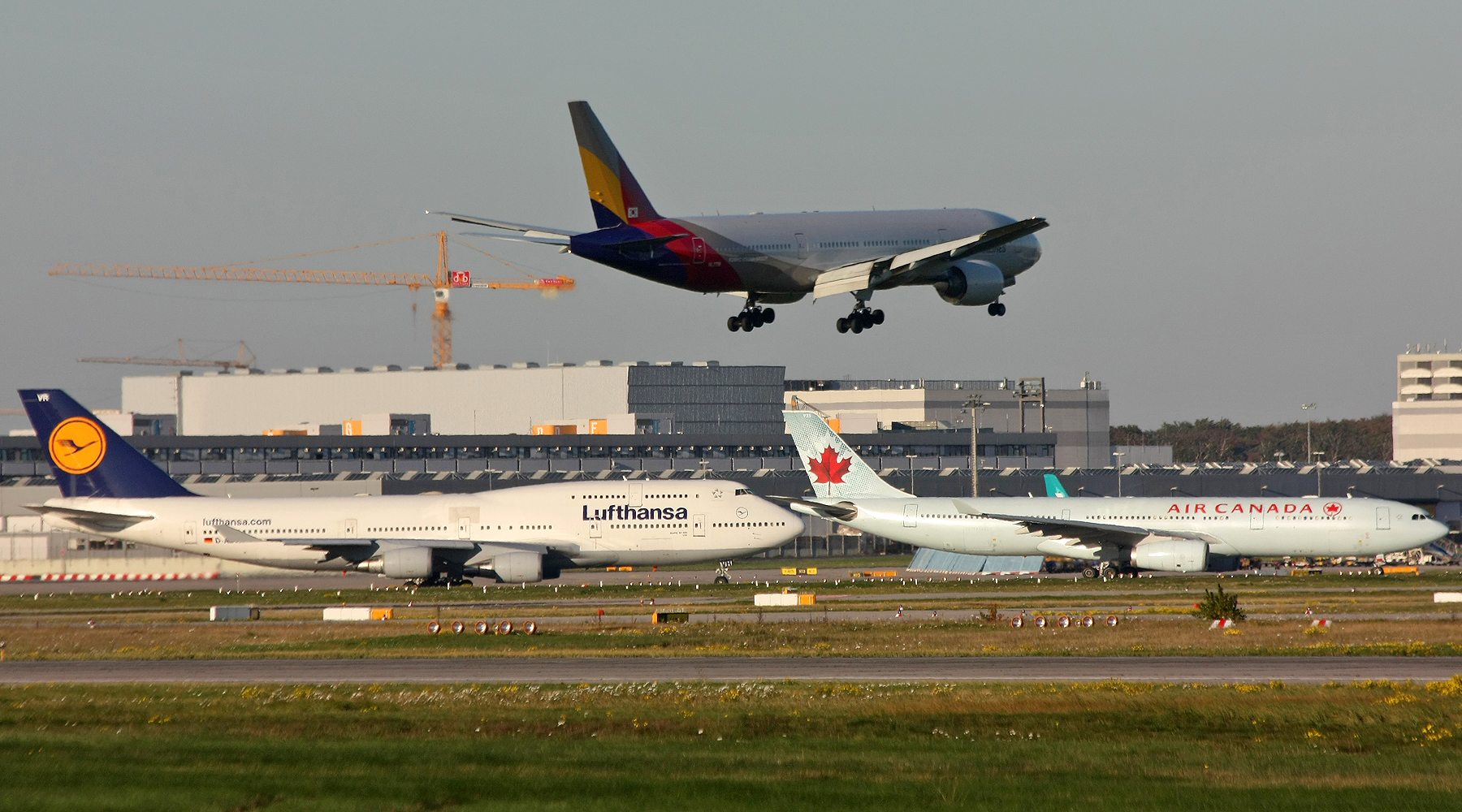 Lufthansa with its partner airlines Air Canada and Asiana Airlines at Frankfurt Airport